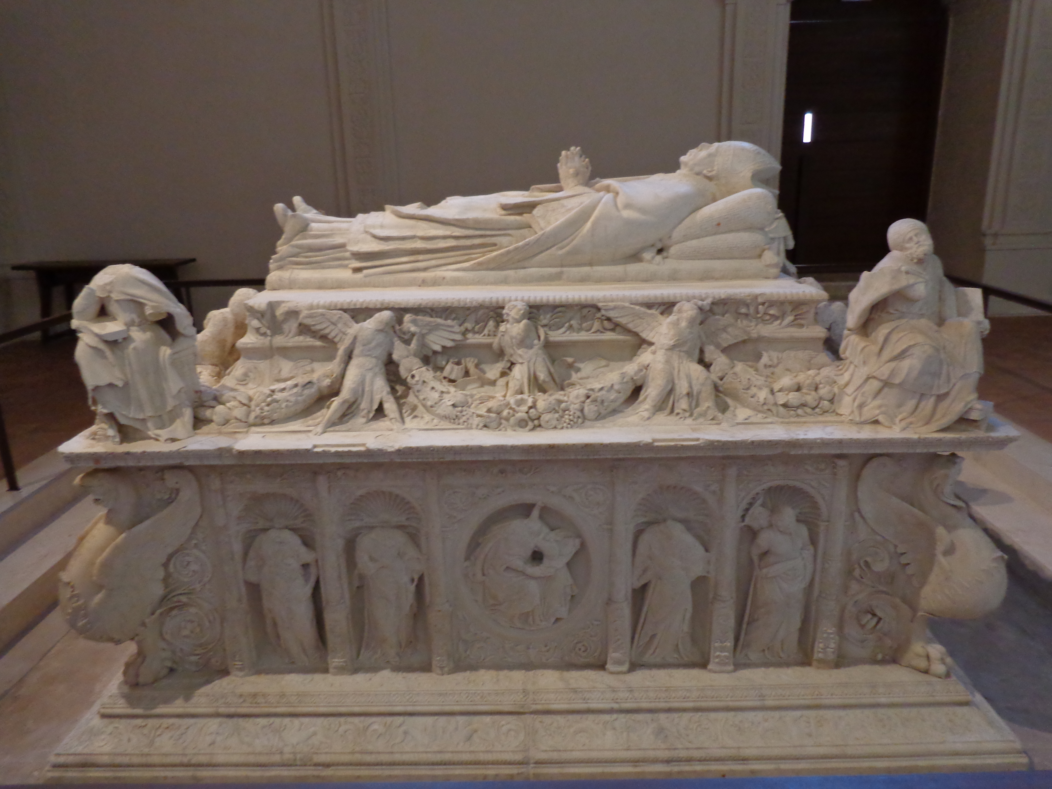 Chapel of Saint Ildephonsus, Alcalá de Henares